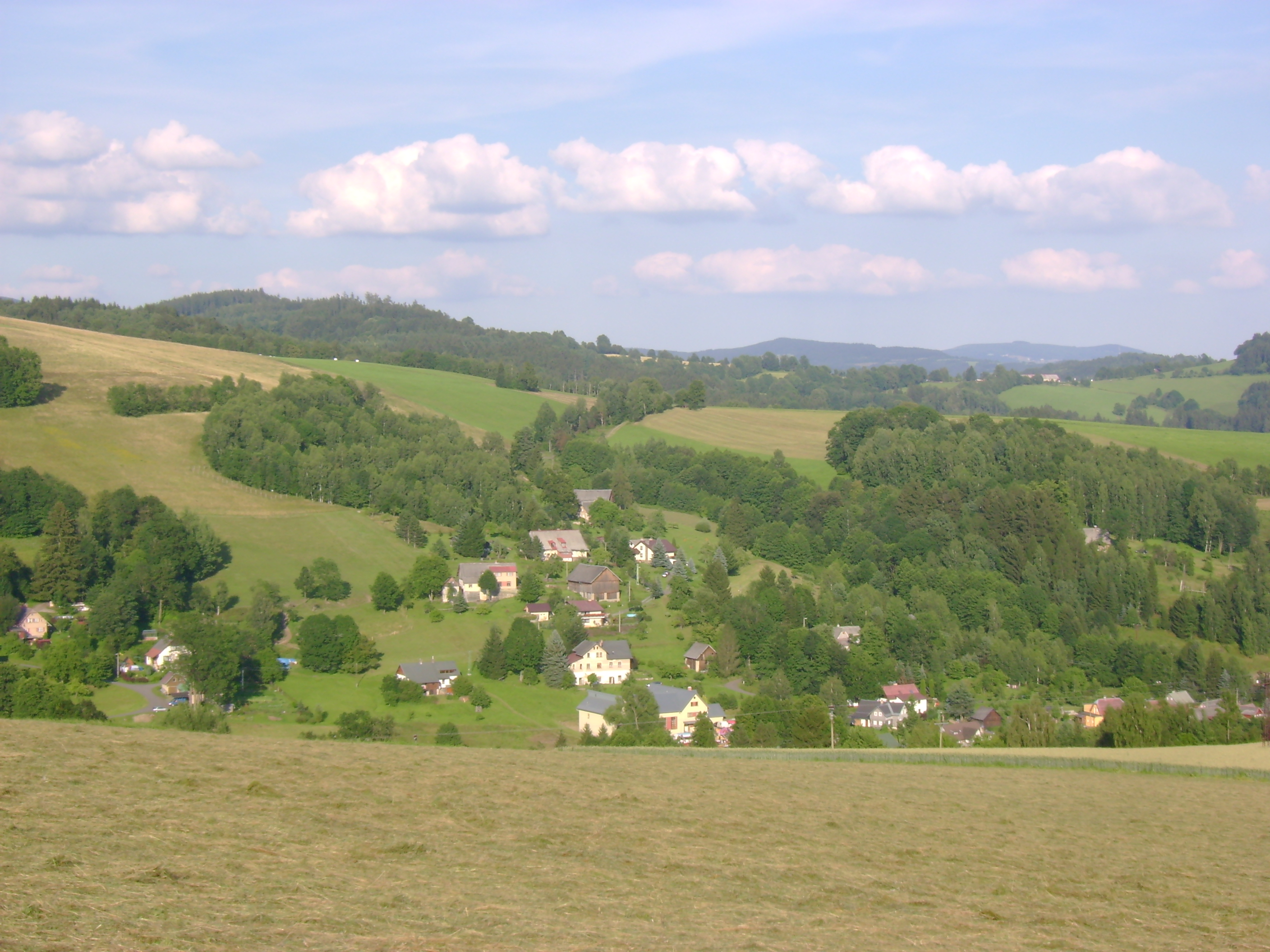 Zlatá Olešnice in Jablonec nad Nisou District in the Liberec Region of the Czech Republic – view of the northern part of village.